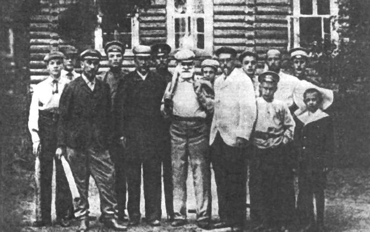 At the dacha in Sillamyagi after playing gorodki. The right of I.P. Pavlov - N.N. Dubovskоy. Photo, 1900-1910 years.